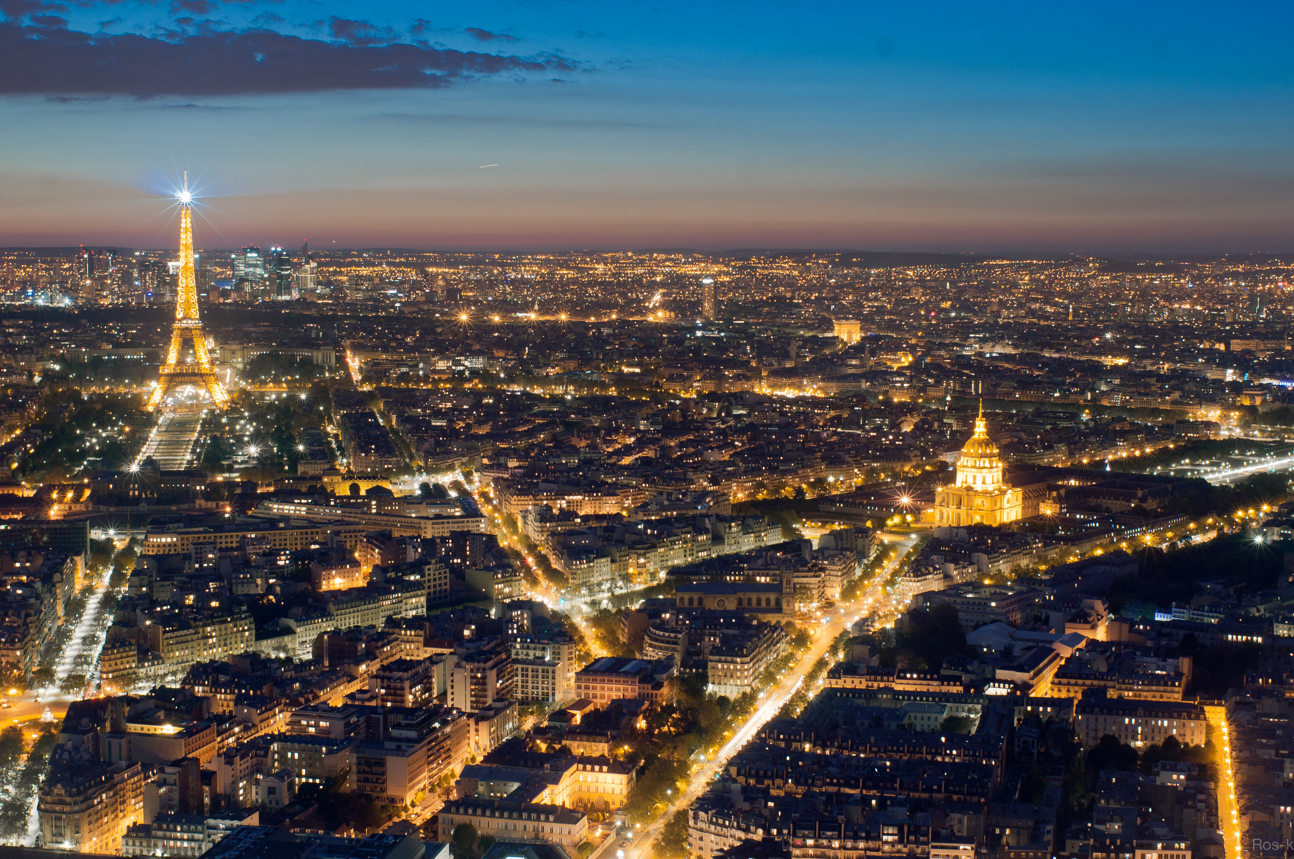 Eiffel Tower from the Tour Montparnasse.